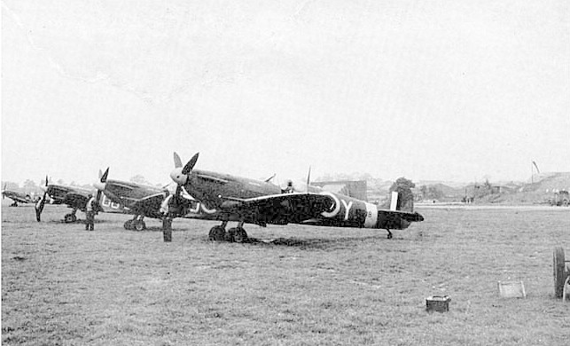 Supermarine Spitfire Vs of 485(NZ) Sqn.